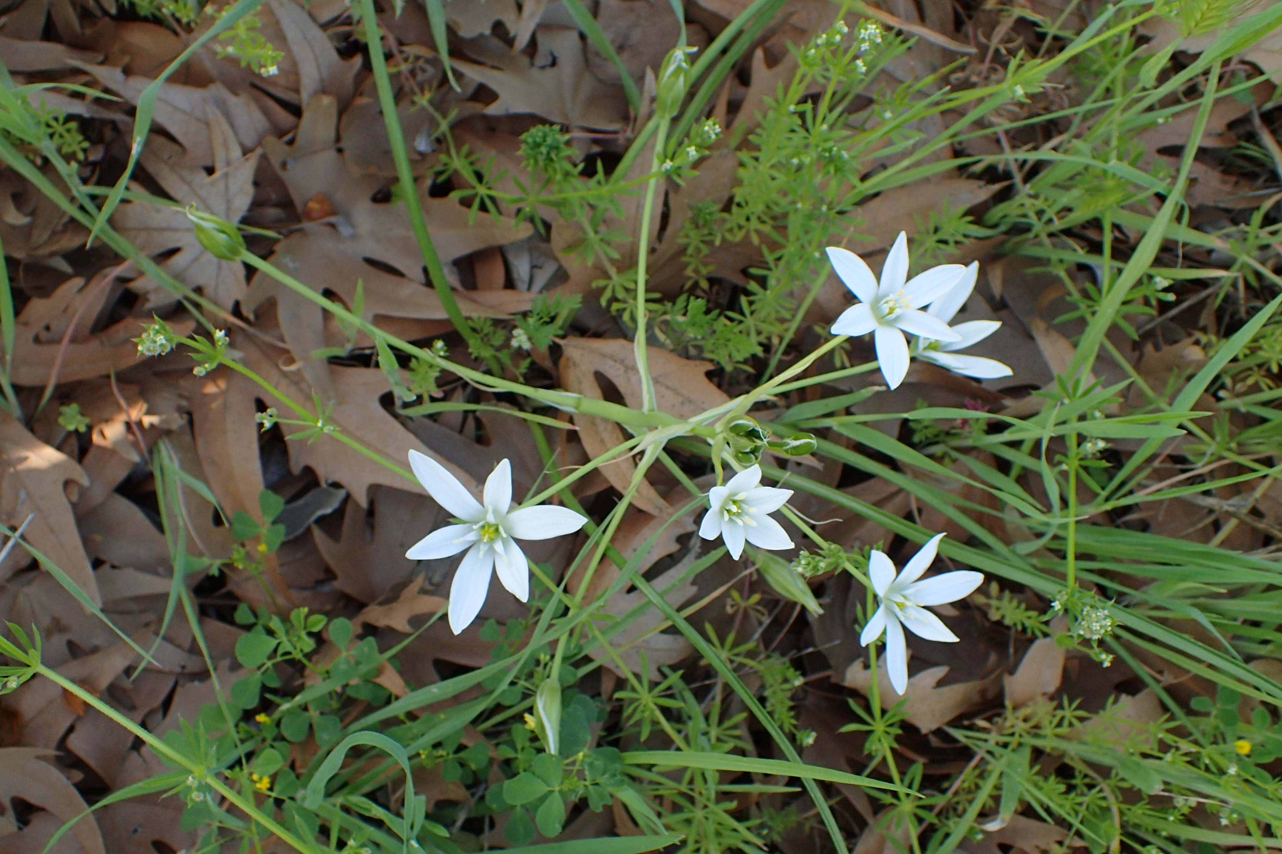 Ornithogalum divergens in Kotsiatis, Cyprus